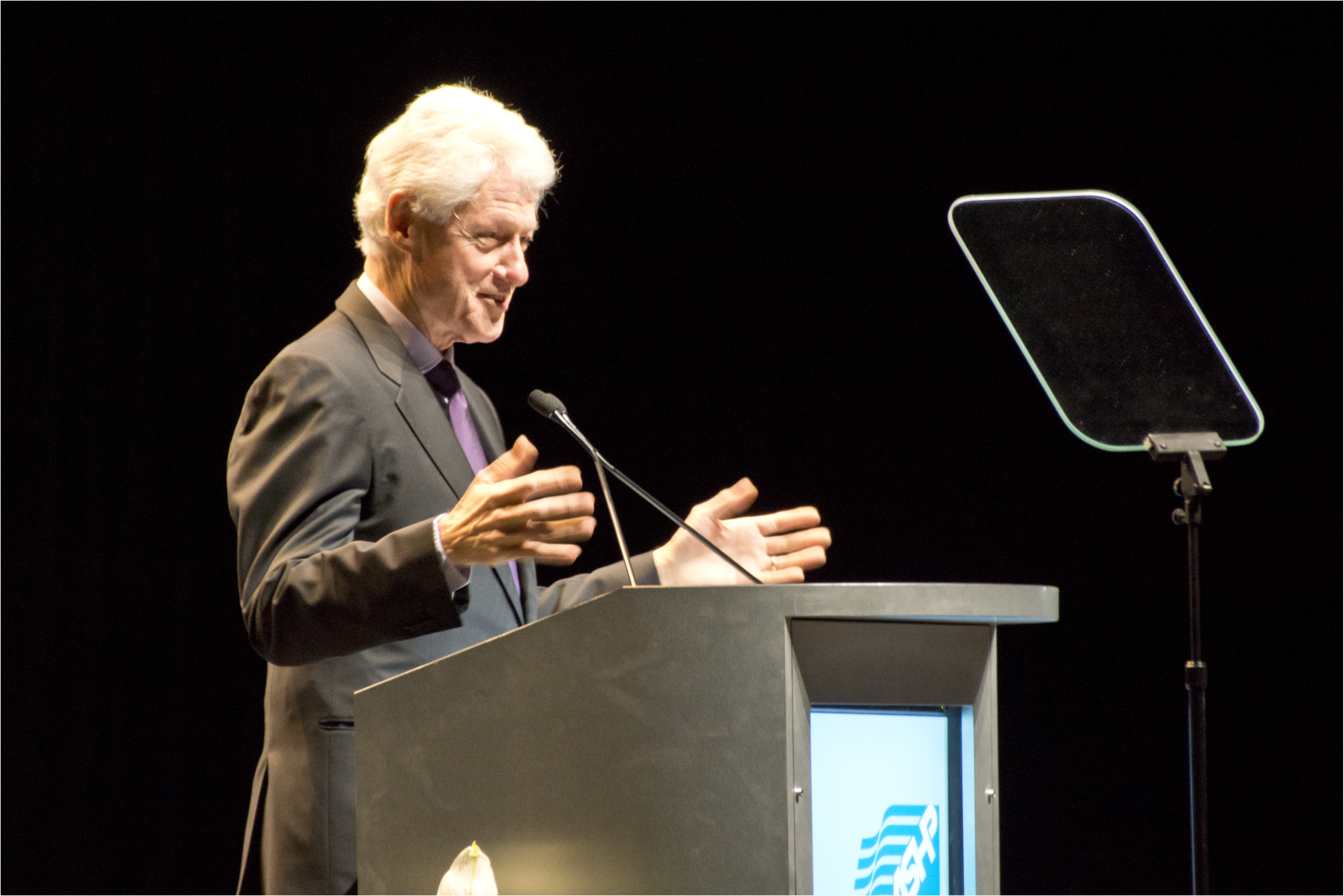 ASHP Midyear Meeting - Las Vegas - Nevada - USA